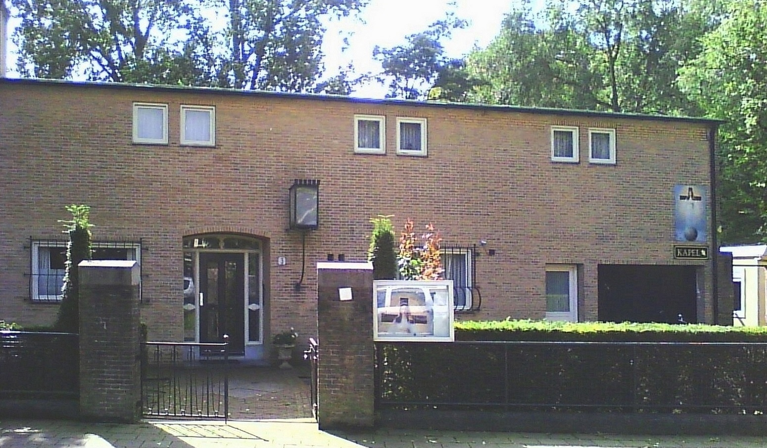 Amsterdam, Chapel of the Lady of All Nations, Diepenbrockstraat 3